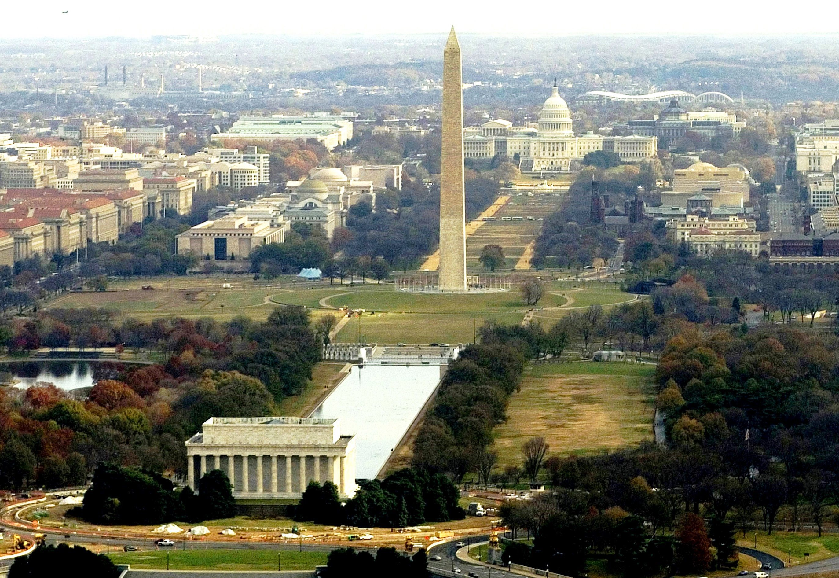 An aerial view of the National Mall in Washington, D.C., showing the Lincoln Memorial at the bottom, the Washington Monument at center, and the U.S. Capitol at the top.